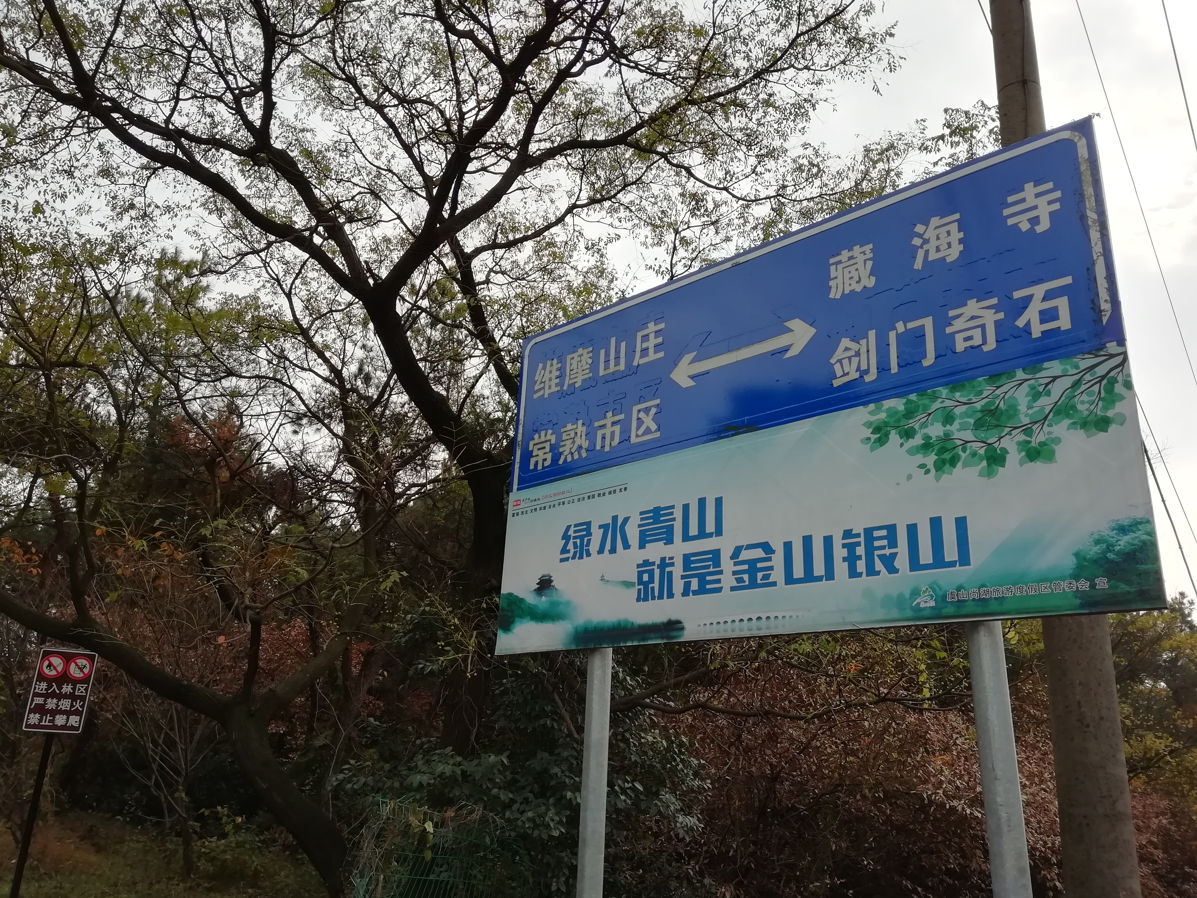 A "Green Water and Green Mountain is Gold Mountain and Silver Mountain" slogan, taken in Yushan, Changshu, China. 中文（中国大陆）: 位于江苏常熟虞山的“绿水青山就是金山银山”标语